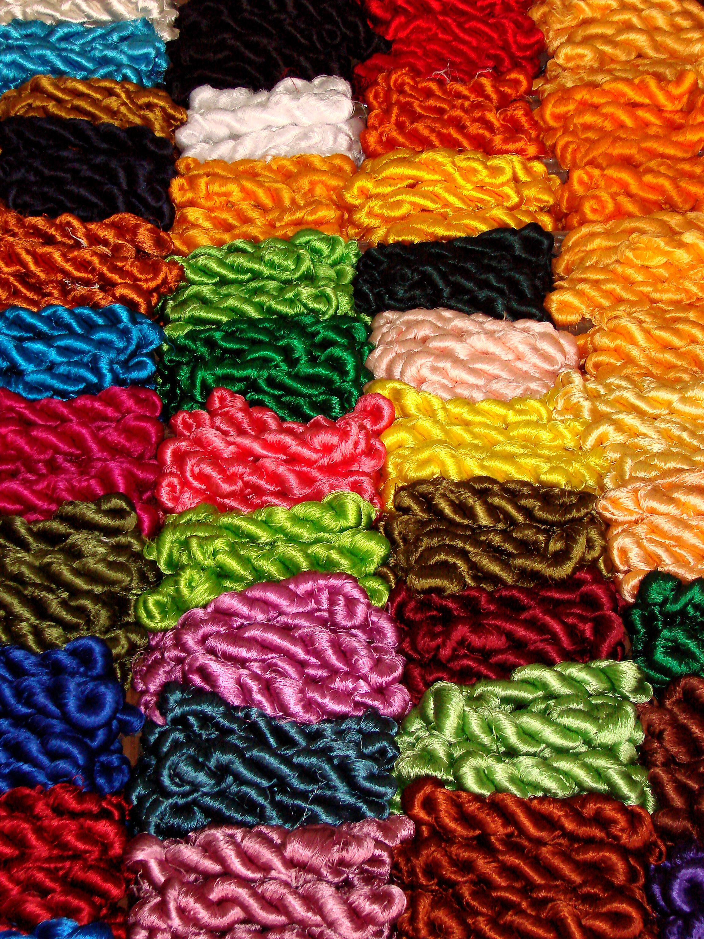 Silk thread for sale in Talat Sao market, Vientiane, Laos. June 2009.